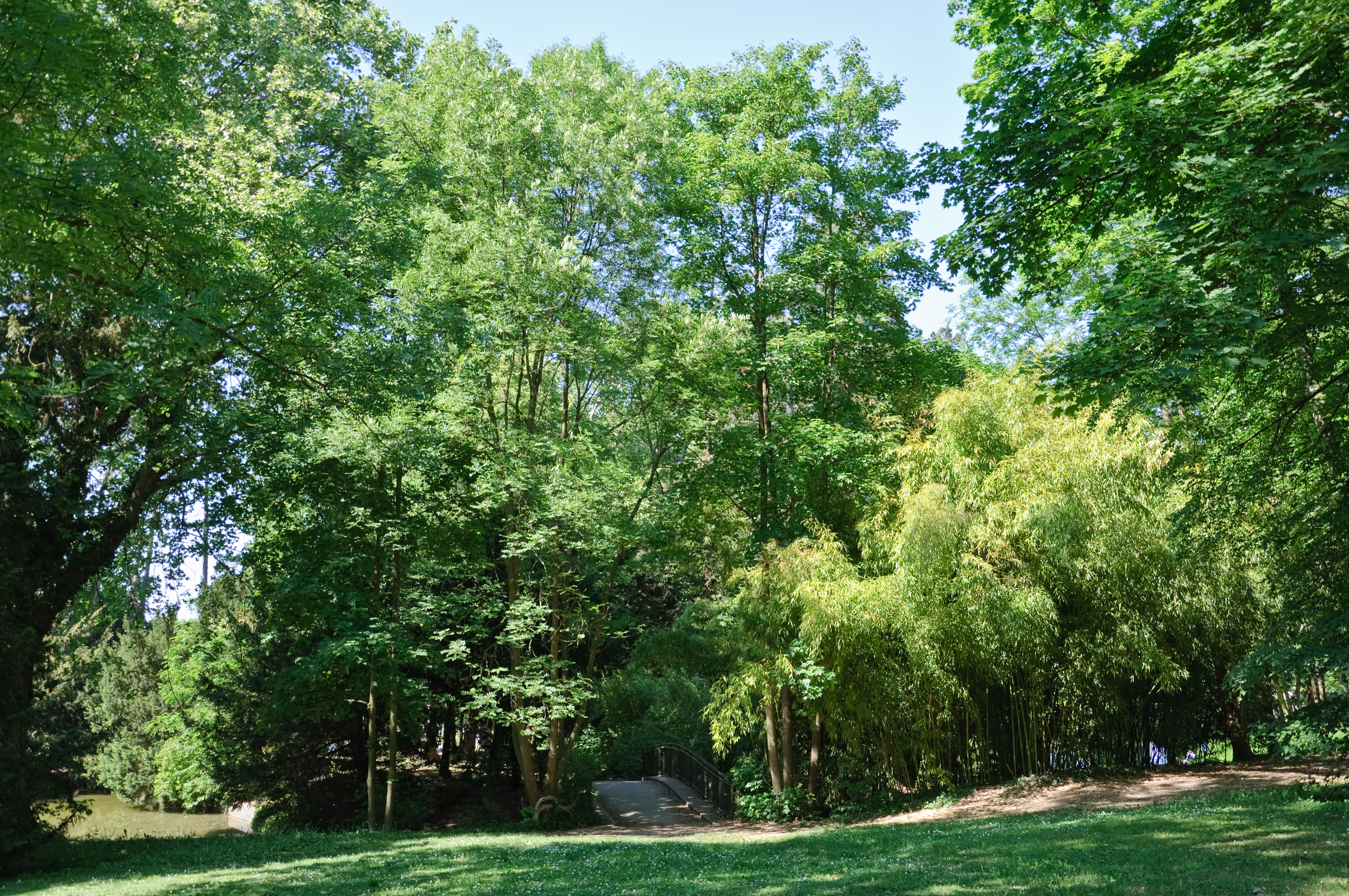 In the English landscape park of Bois-Préau, part of the Malmaison estate, in Rueil-Malmaison (Hauts-de-Seine, France).